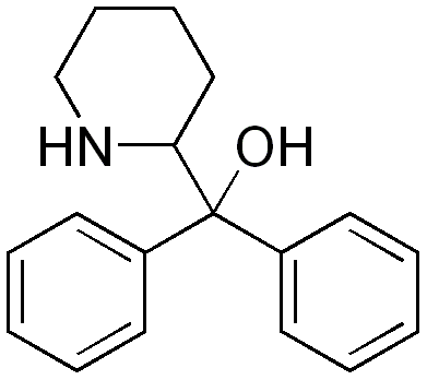 Chemical structure of pipradrol created with ChemDraw